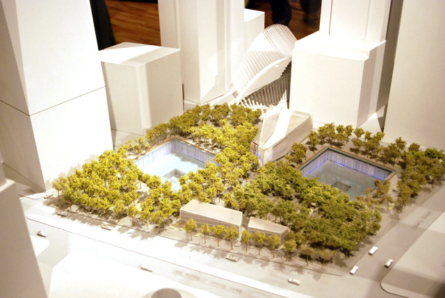 Photos by Irina Lee AIGA/NY: Making History: 9/11Memorial Museum Media 9/11 Memorial Preview Site, 9/13/2010